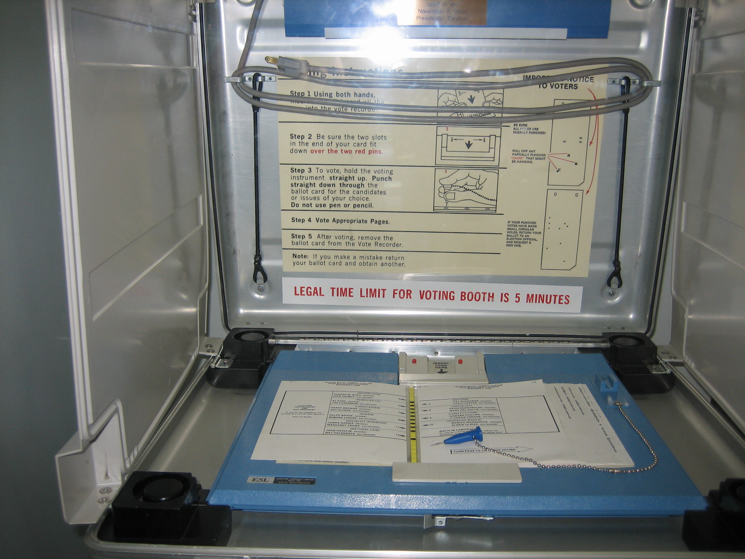 Old Florida State Capitol buildings, Tallahassee, now a museum. Voting stand and the notorious "butterfly ballot", from Palm Beach County from the disputed 2000 U.S. Presidential election.